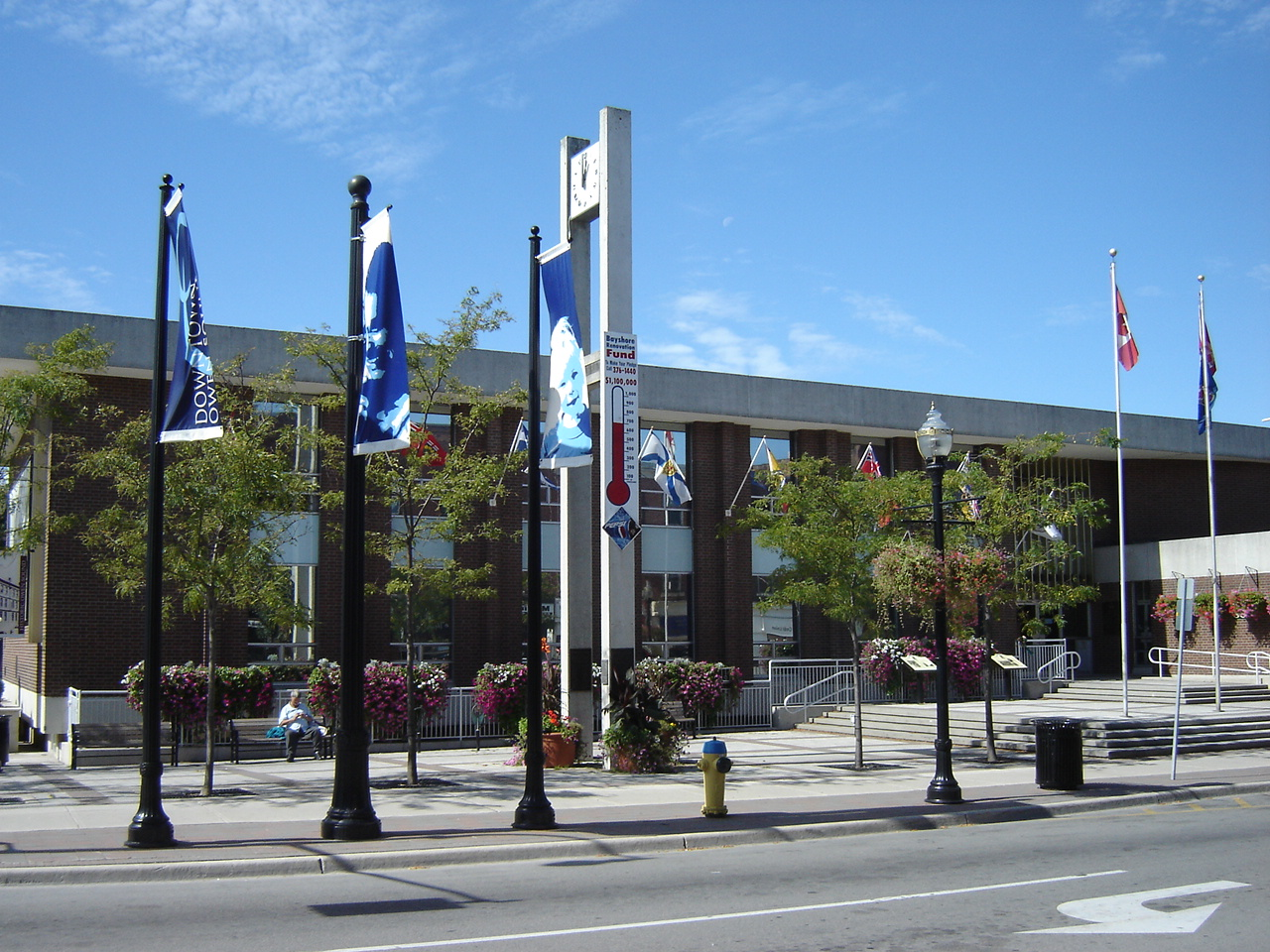 Owen Sound City Hall, photo by Jay Smith